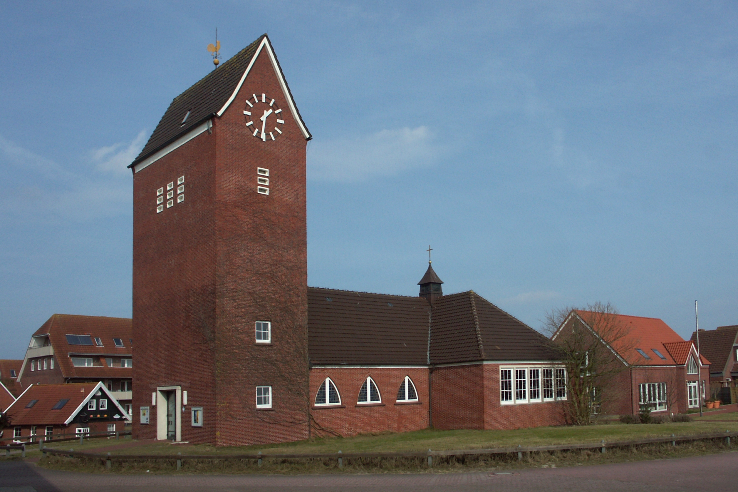 Baltrum protestant lutheran church